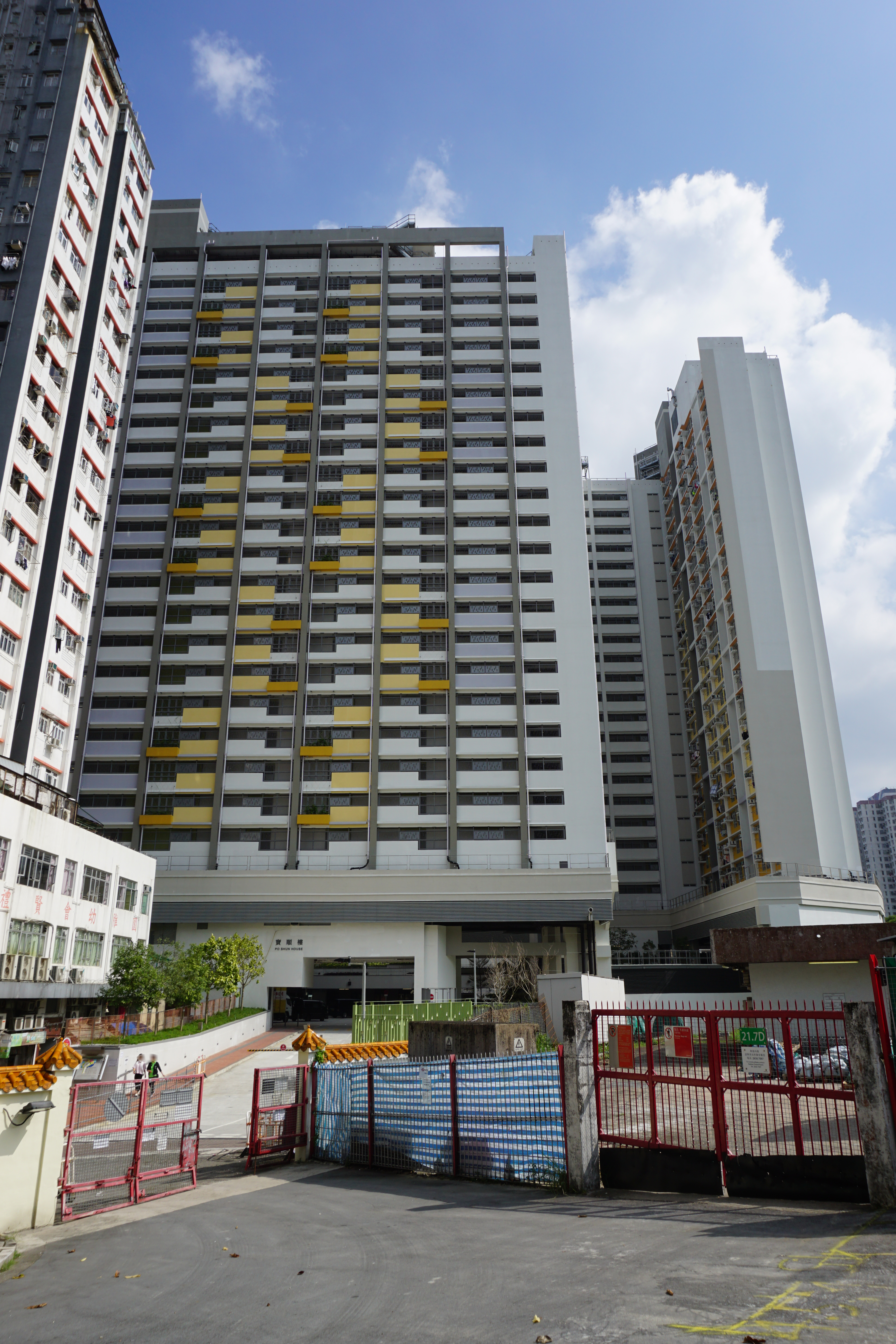 Po Heung Estate in Tai Po, Hong Kong.